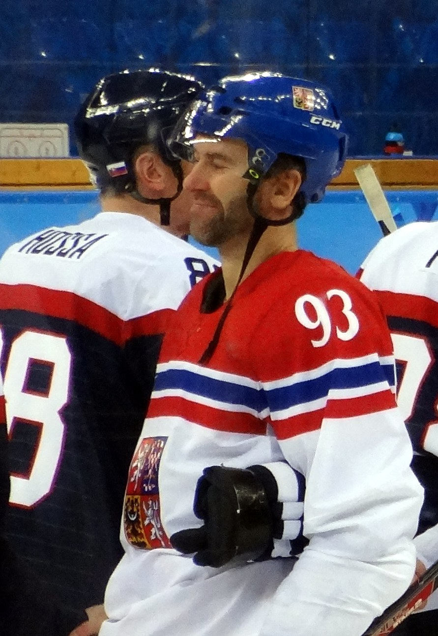 Petr Nedvěd, 2014 Winter Olympics